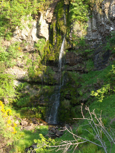 Downie's Loup. Waterfall just below the one pictured for NS7092. I will try to revisit when there is more than a trickle.